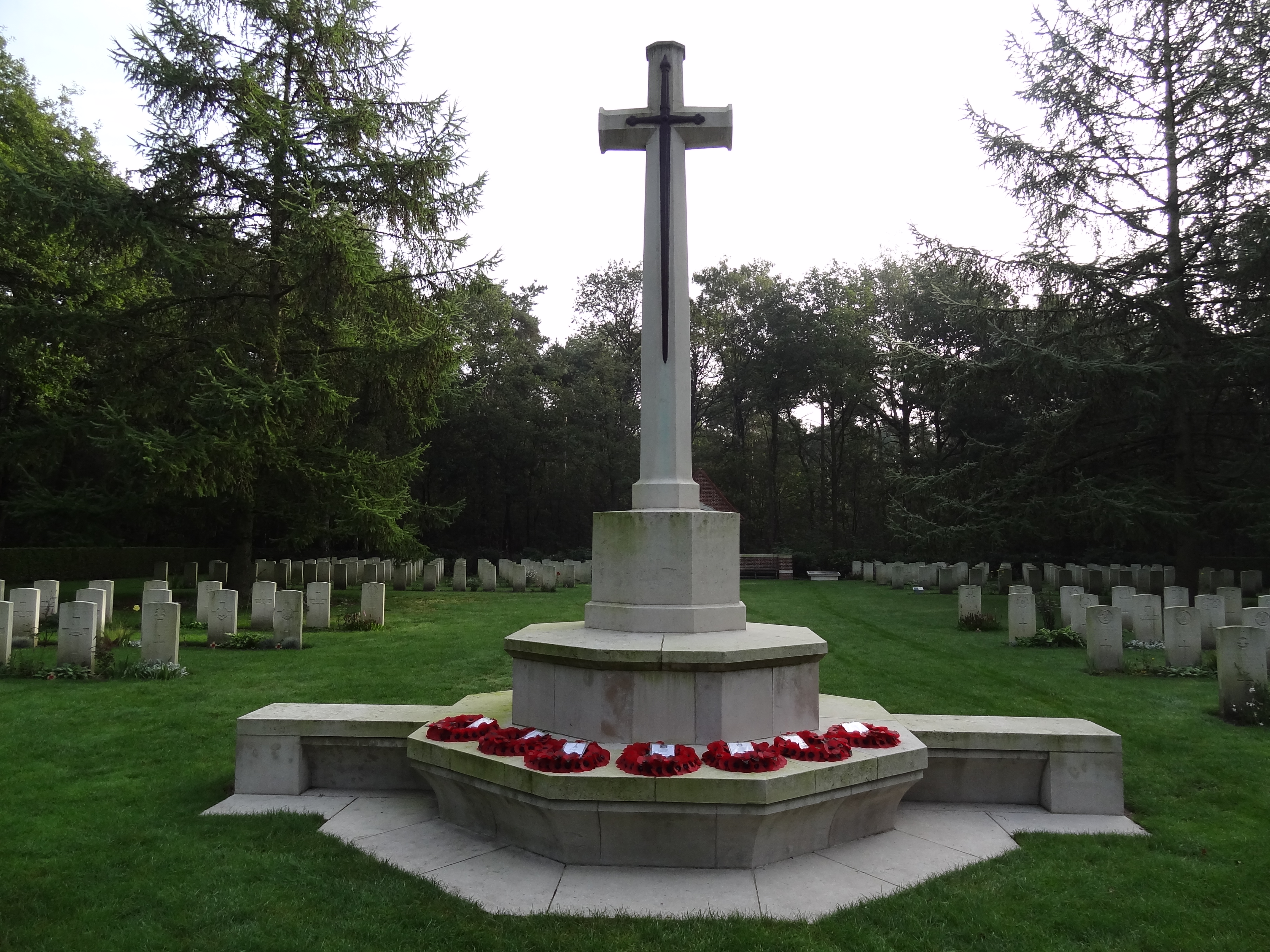 Cross of Sacrifice designed by Sir Reginald Blomfield at the War Cemetery in Overloon, The Netherlands